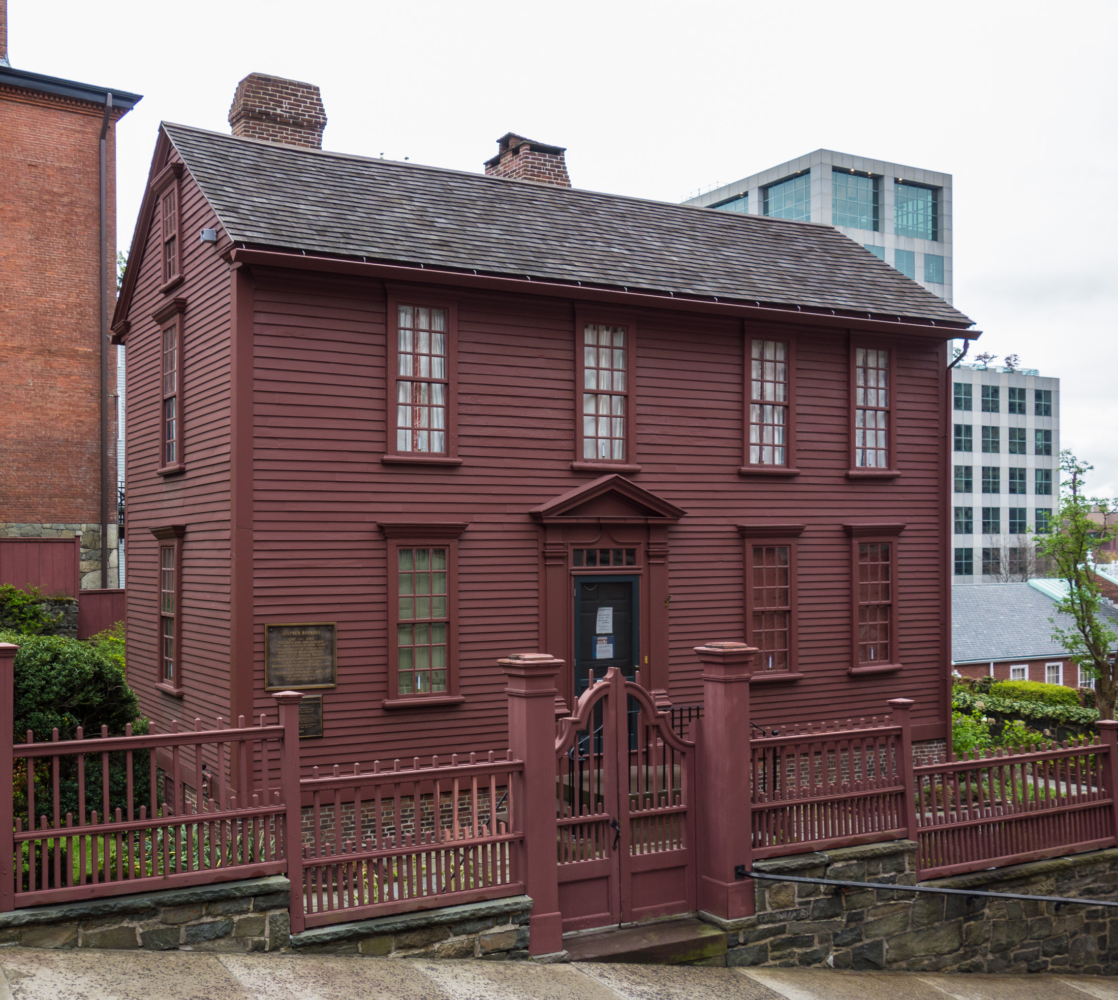 Stephen Hopkins House 2014